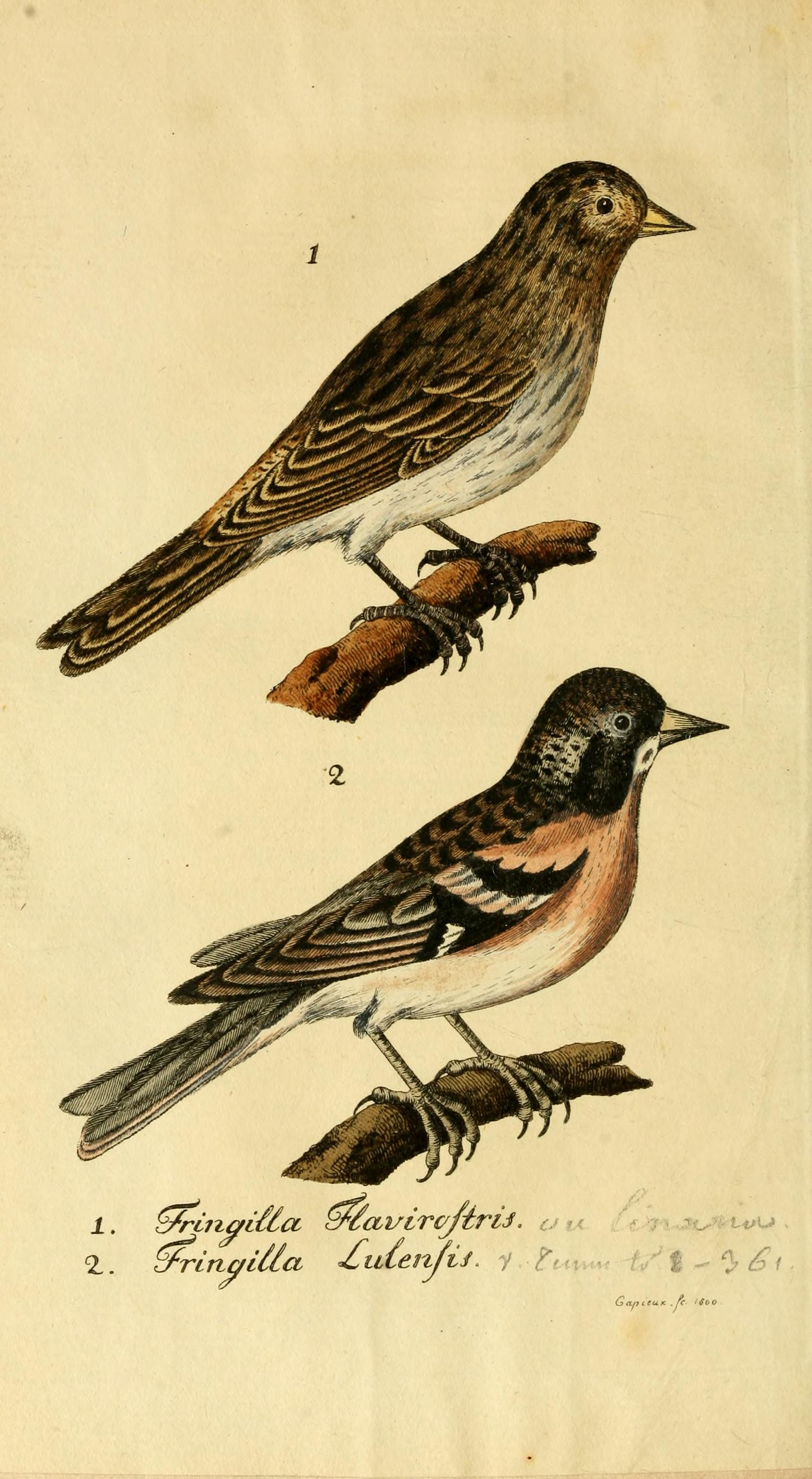 FaunaesuecicaCapieuxFringilla